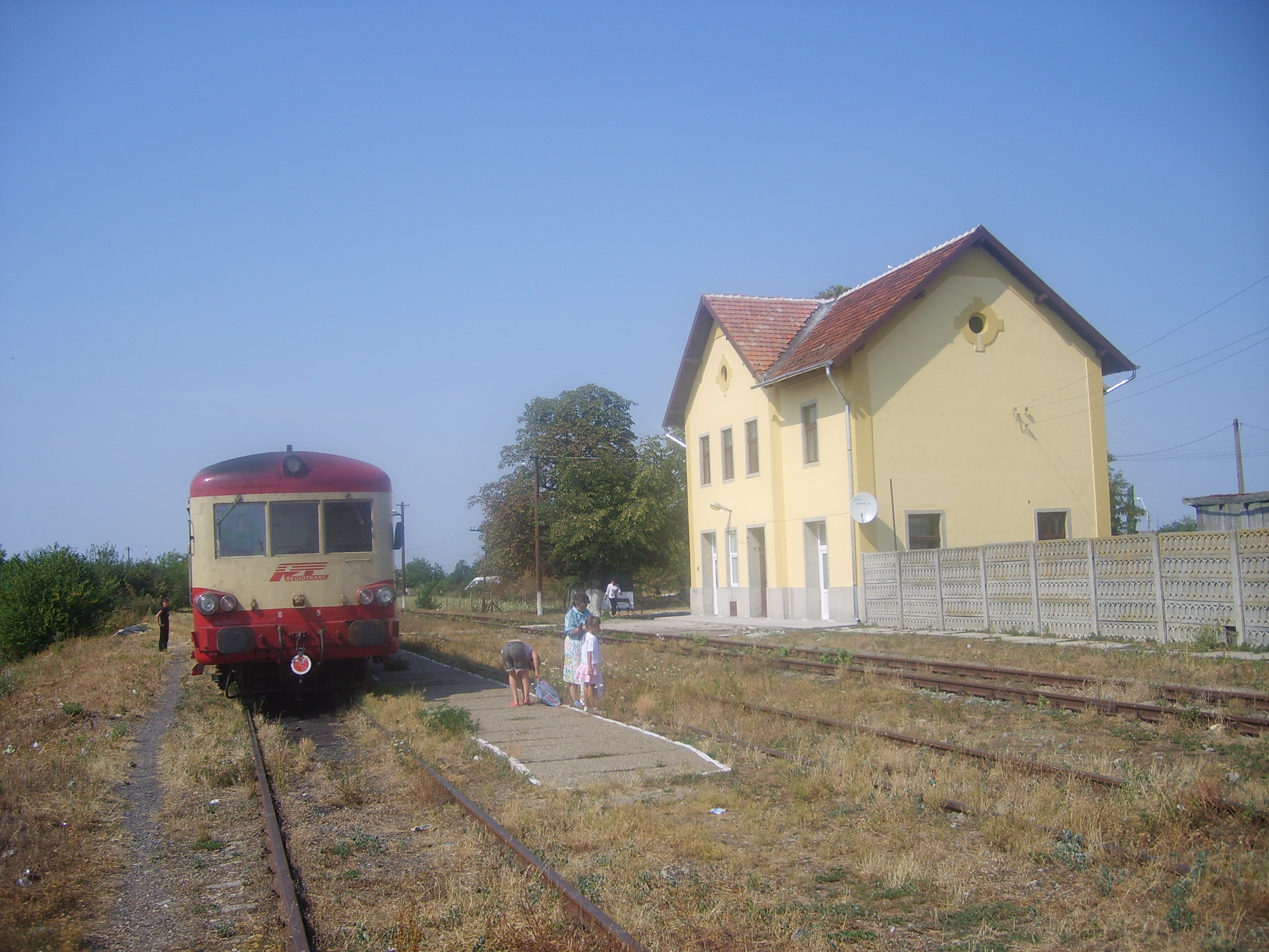 Train station in Jamu Mare, Romania, with a passenger train of Regiotrans en route from/to Gătaia.